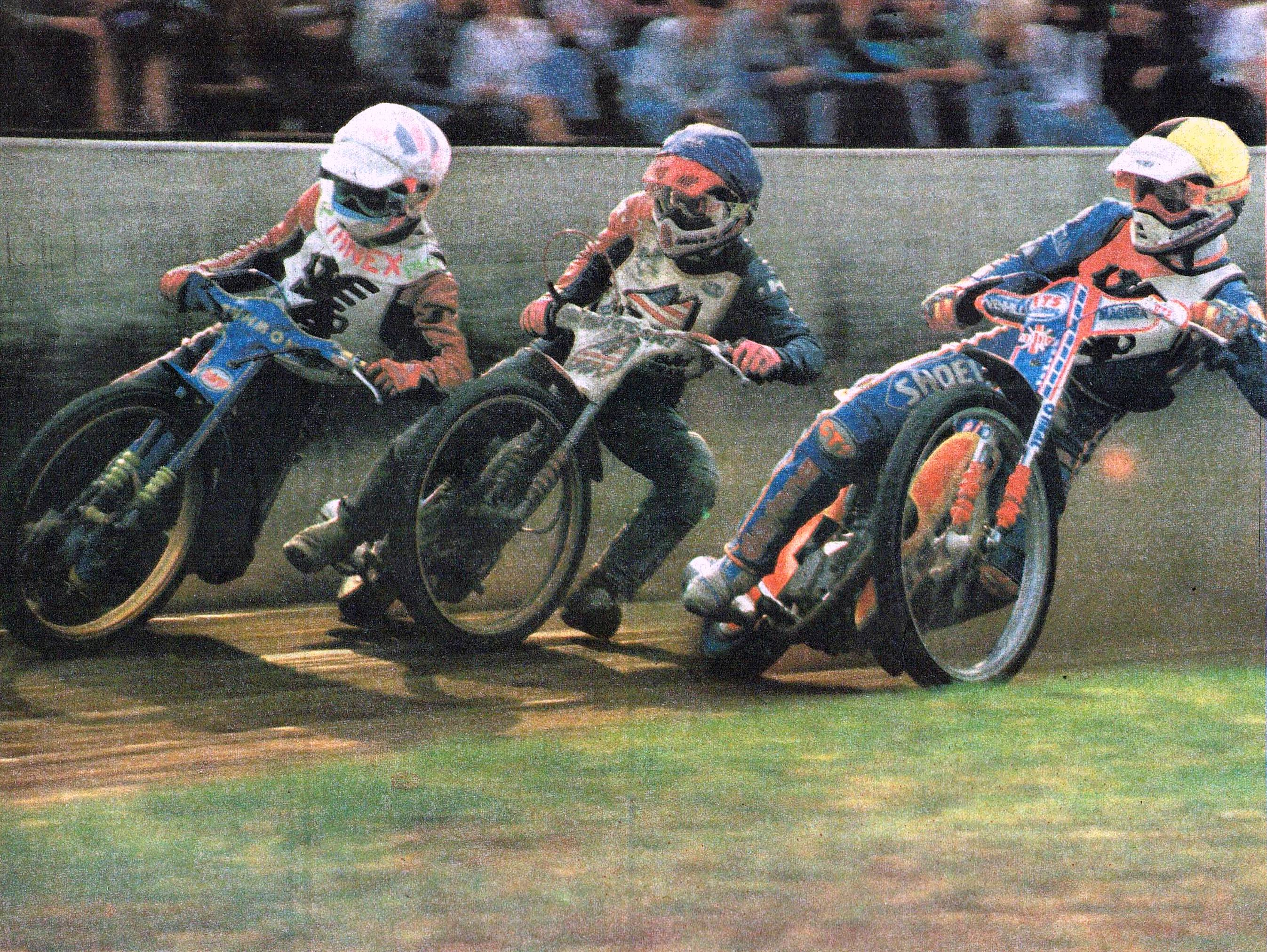 Polish speedway league, 1992. Morawski (Falubaz) Zielona Góra v. Polonia Bydgoszcz. Waldemar Cieślewicz (white helmet), Andrzej Zarzecki and Sam Ermolenko.